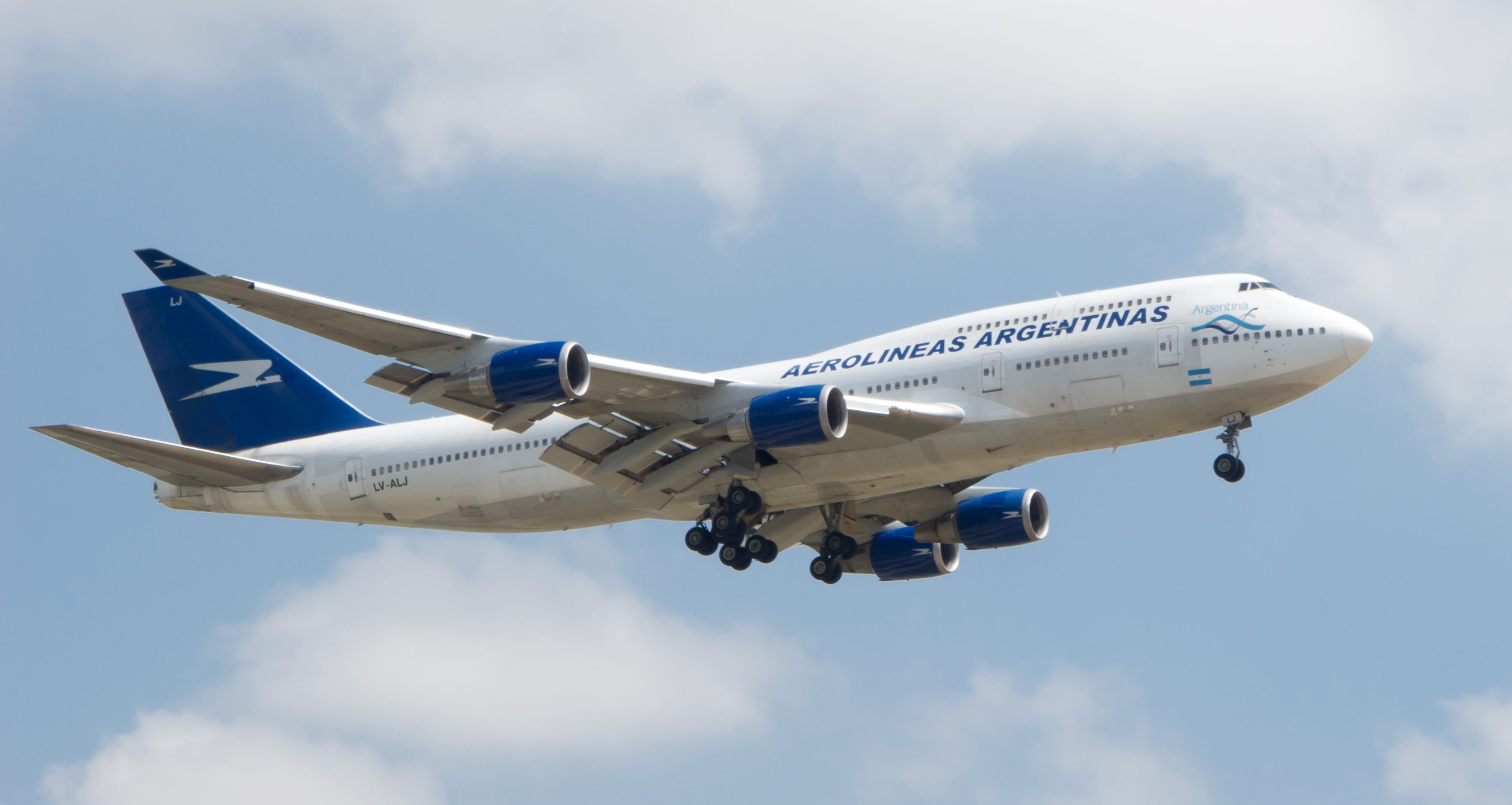 Boeing 747-475 - Aerolíneas Argentinas.